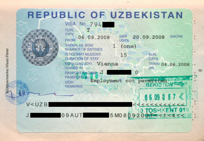 Uzbek tourist visa of 2008 in Austrian passport